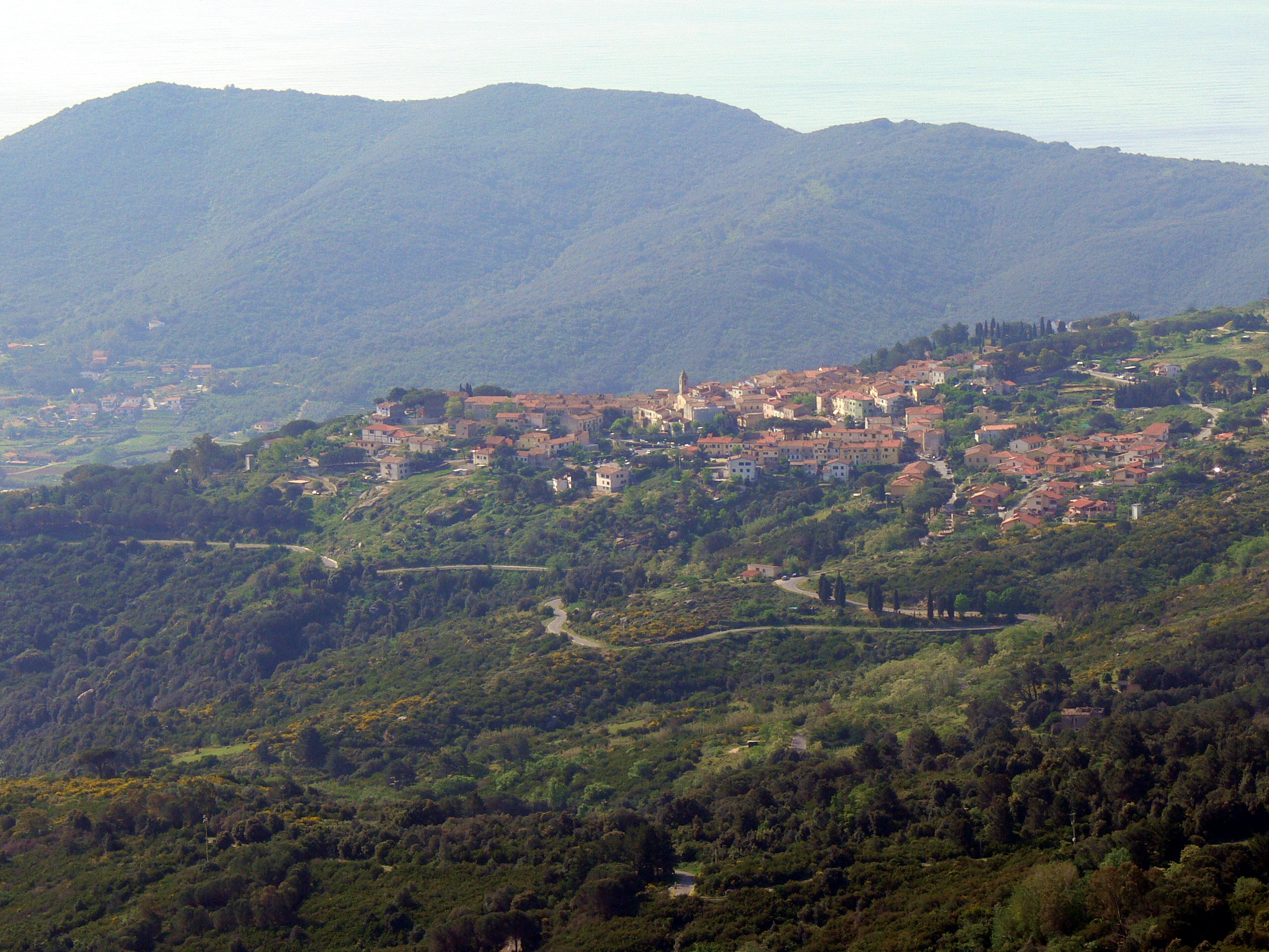 San Piero in Campo ( Elba ). View from the Monte Perone.